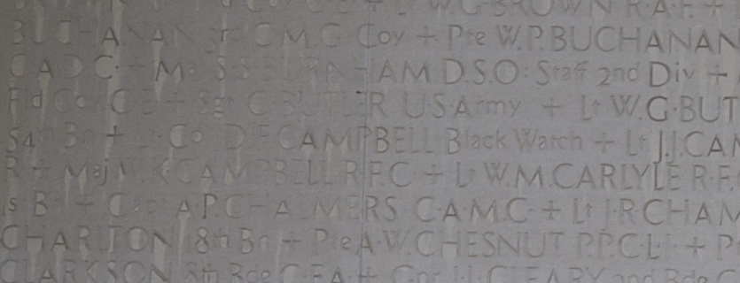 Crop from panel 1 of the WWI 1914-1918 name list at the Soldier's Tower at the University of Toronto. This crop focuses on the name of Lieutenant Colonel D. F. Campbell (Duncan Frederick Campbell) of the Black Watch. CWGC casualty details. Duncan Frederick Campbell.